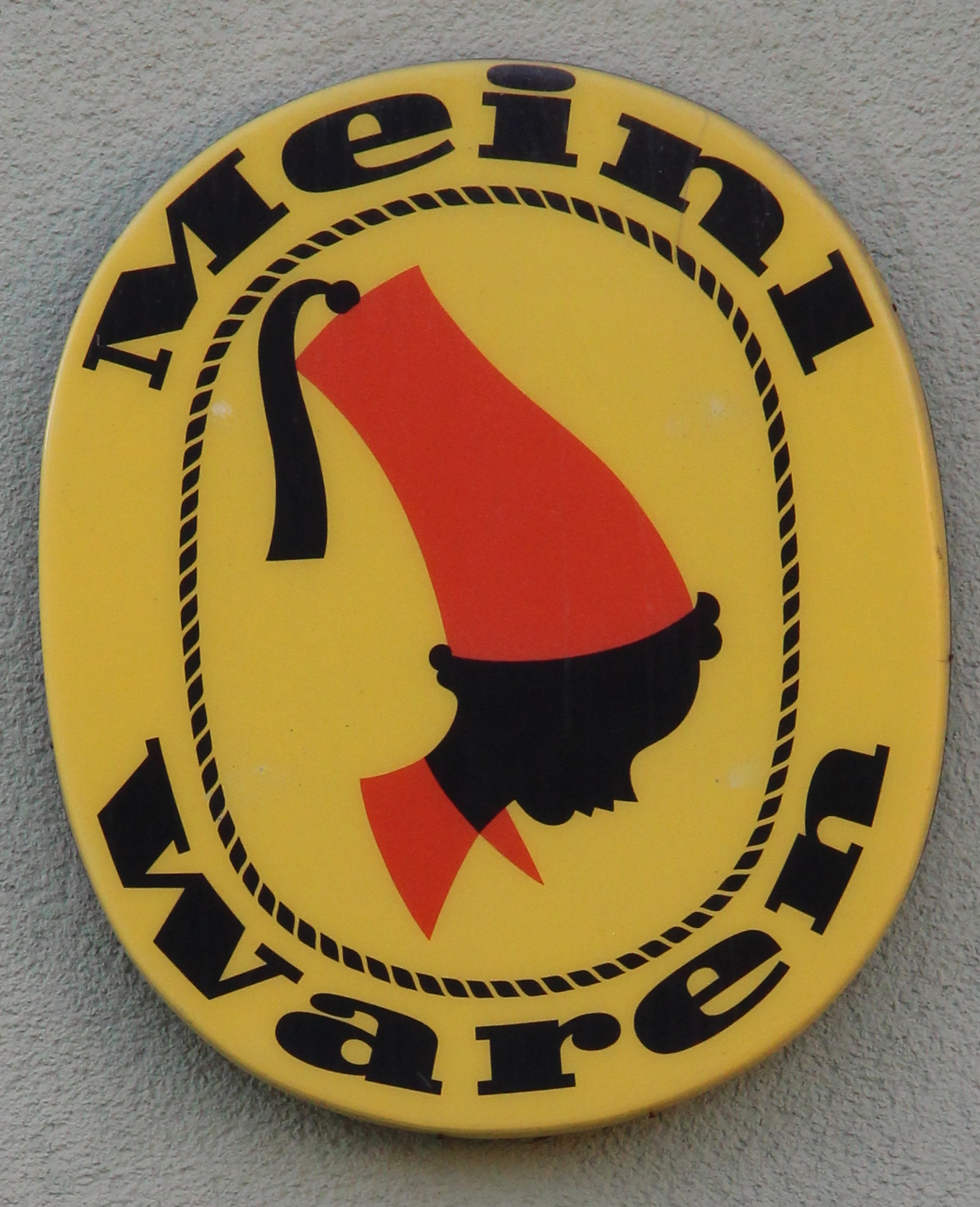 A cropped version of Kaufhaus Daxböck, Laaben 04.JPG to highlight an old version of the Julius Meinl logo.